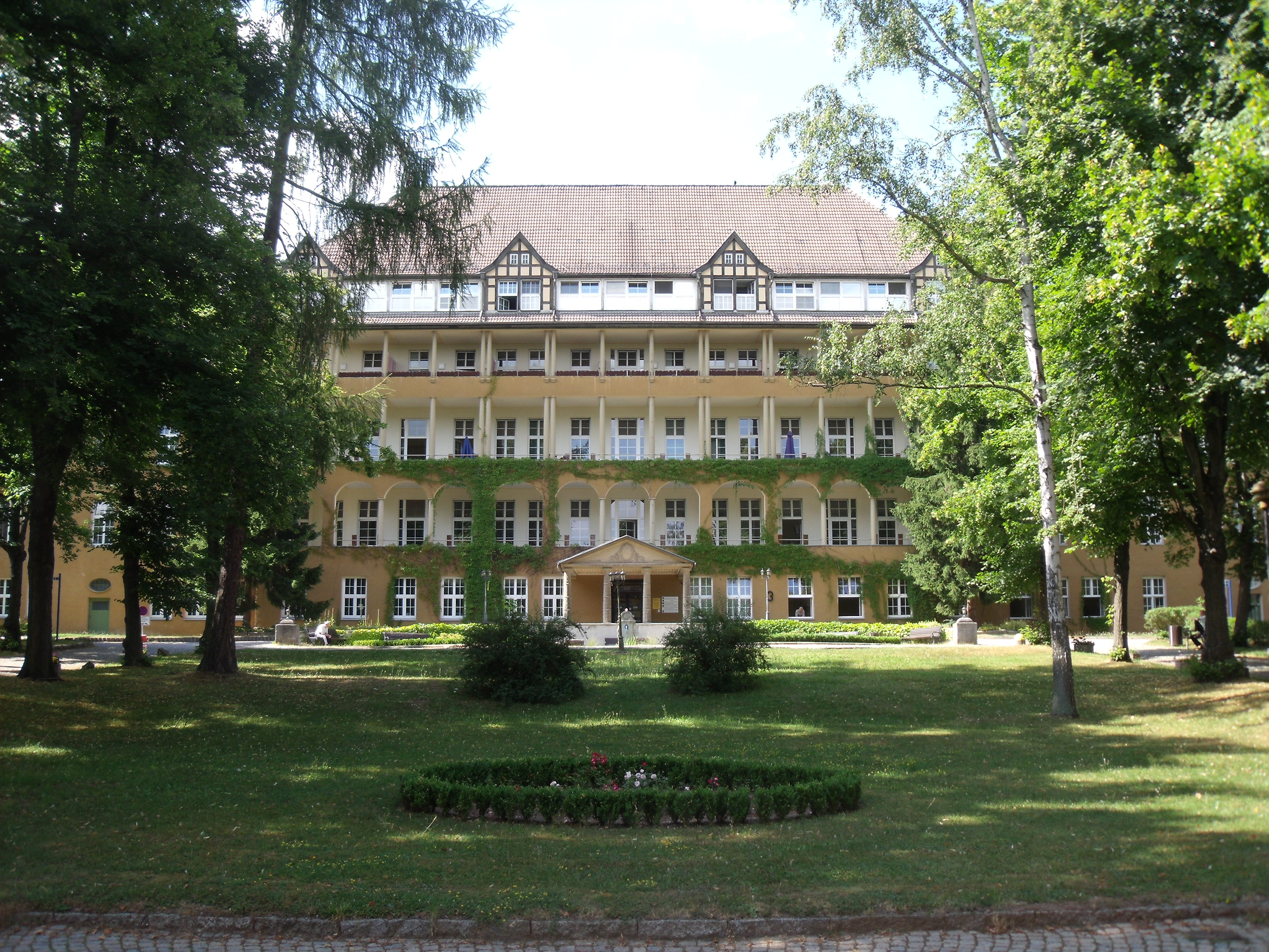 SRH Waldklinikum Gera in the year 2010: Old Waldkrankenhaus (Forest Hospital; opened in 1920)